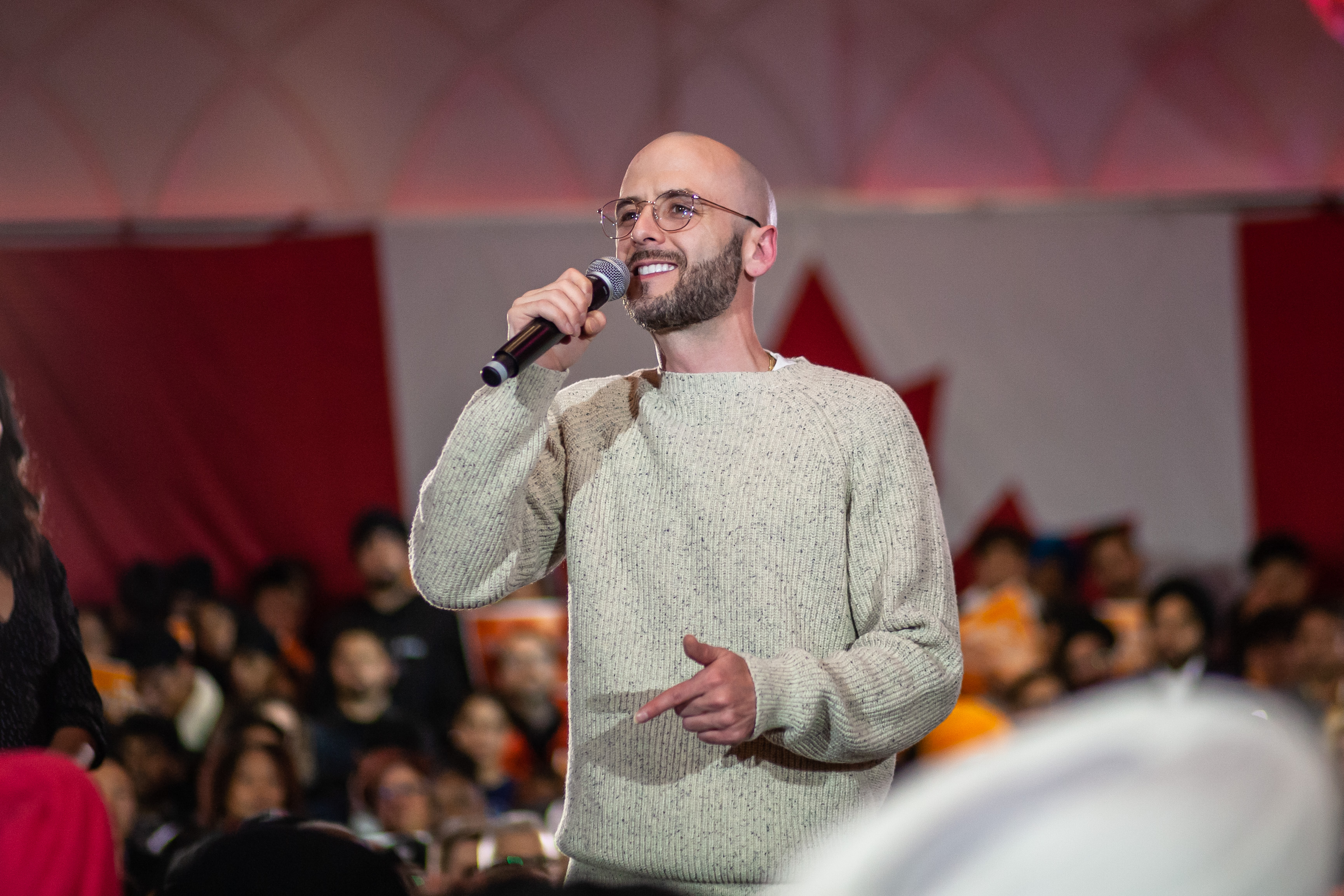 At a campaign rally in Brampton, Noah Shebib endorses NDP Leader Jagmeet Singh during the 2019 Canadian federal election